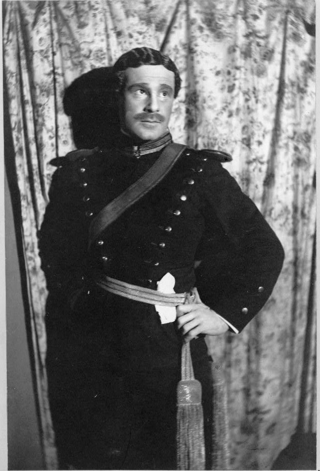 Actor Richard Mansfield in costume for the title role in the play Prince Karl